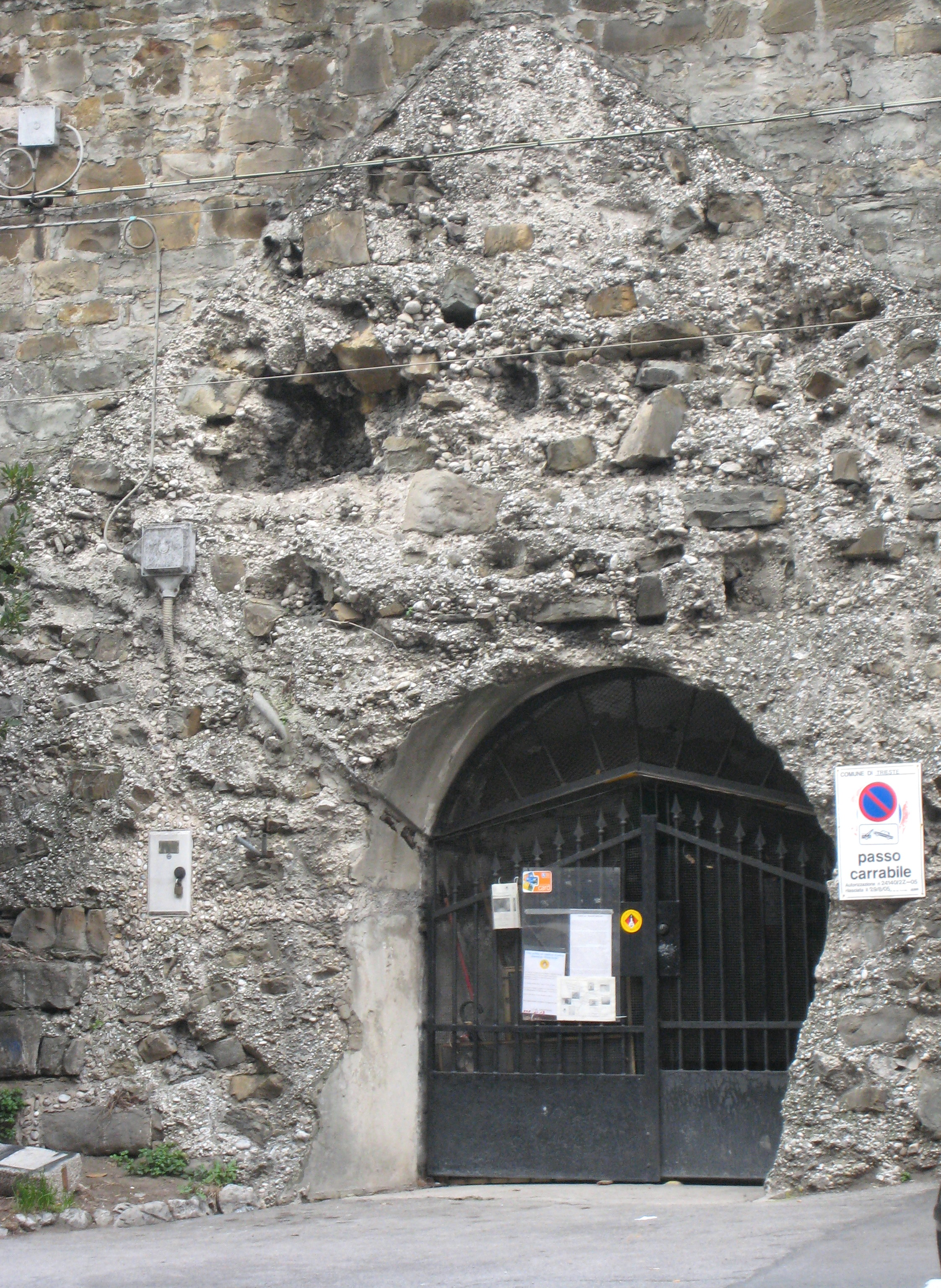 Kleine Berlin-Trieste-Italy